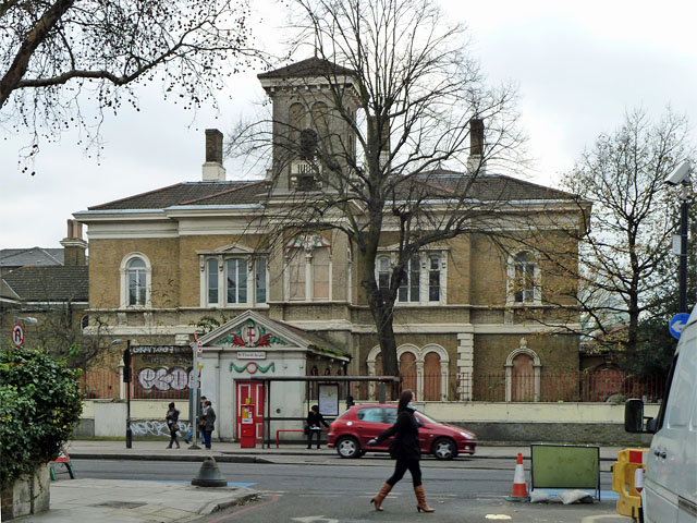 St Clements Hospital, near to Bow, Tower Hamlets, Great Britain.